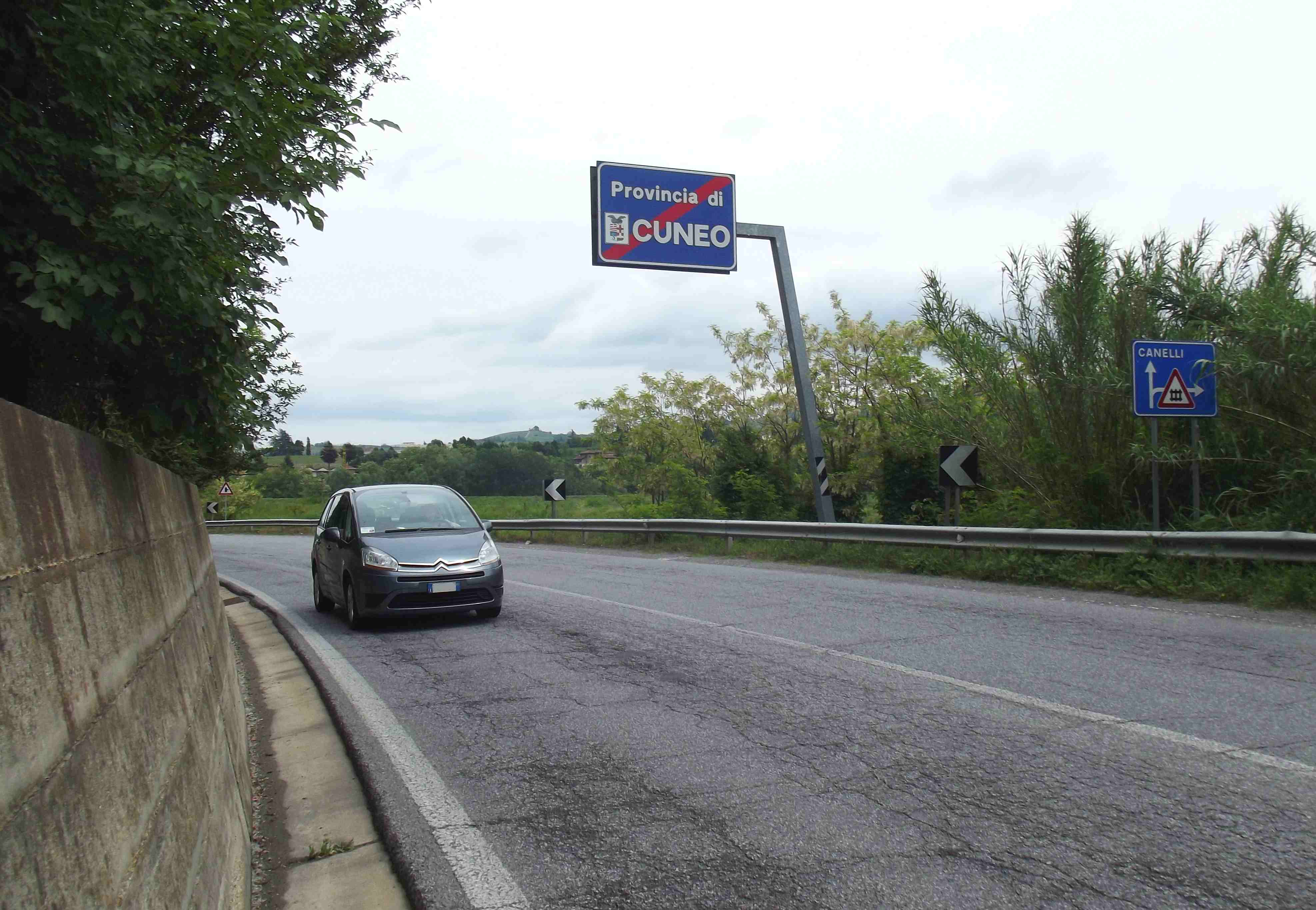 Former Italian national road 592 di Canelli" between the provinces of Cuneo and Asti